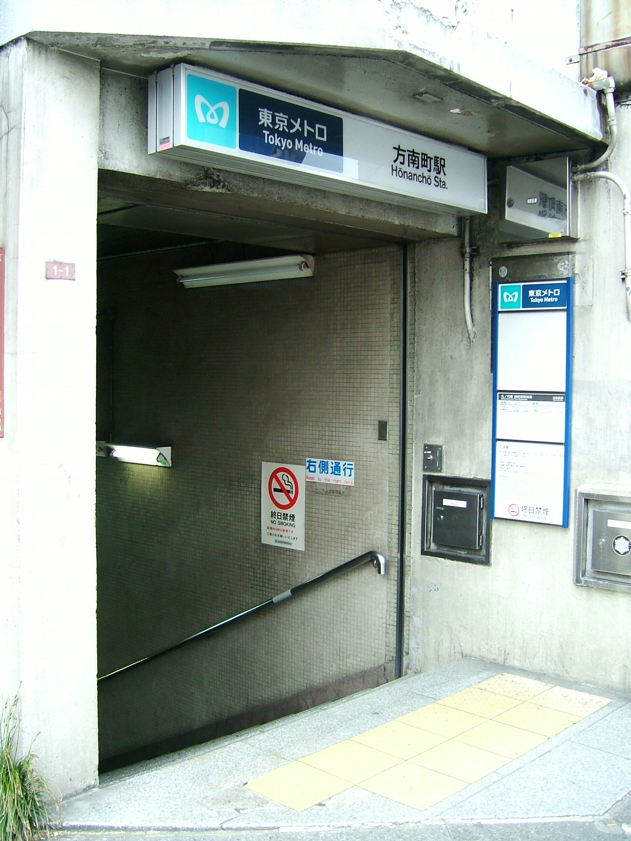 The entrance 1 to Honancho Station on the Marunouchi Line